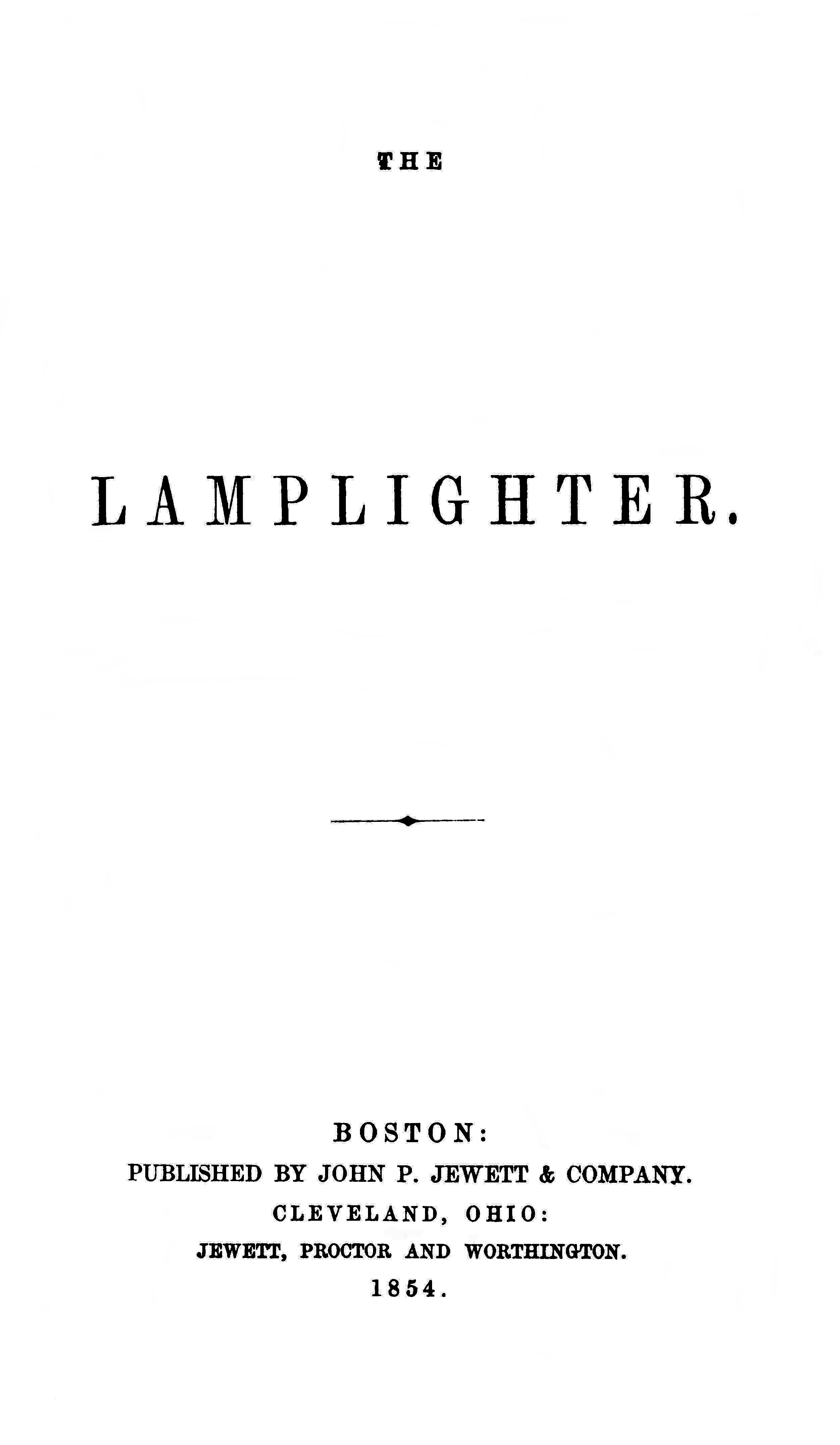 1st ed title pg